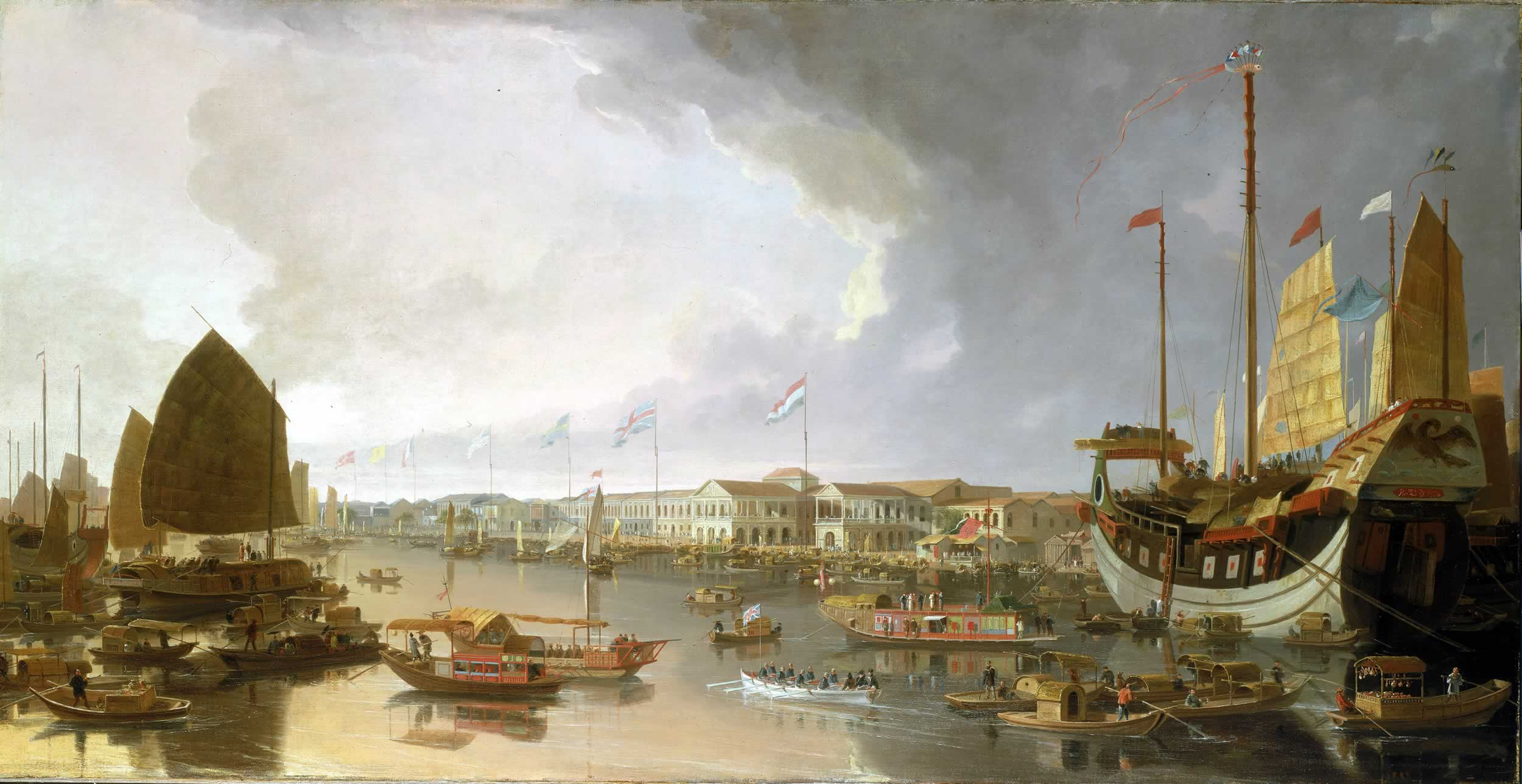 Canton City (Guangzhou) — with the Pearl River and the several of the Thirteen Factories of the Europeans.